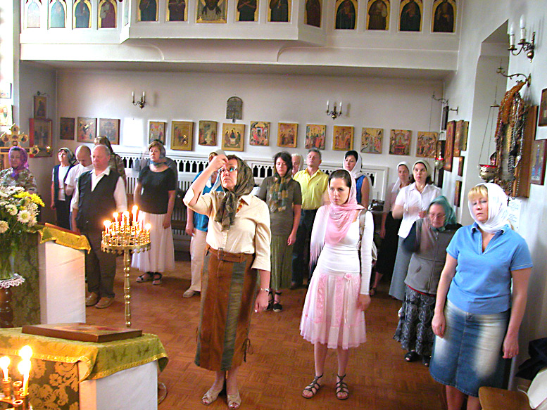 Orthodox worsippers praying during Divine Liturgy. Holy Protection Church, Düsseldorf.